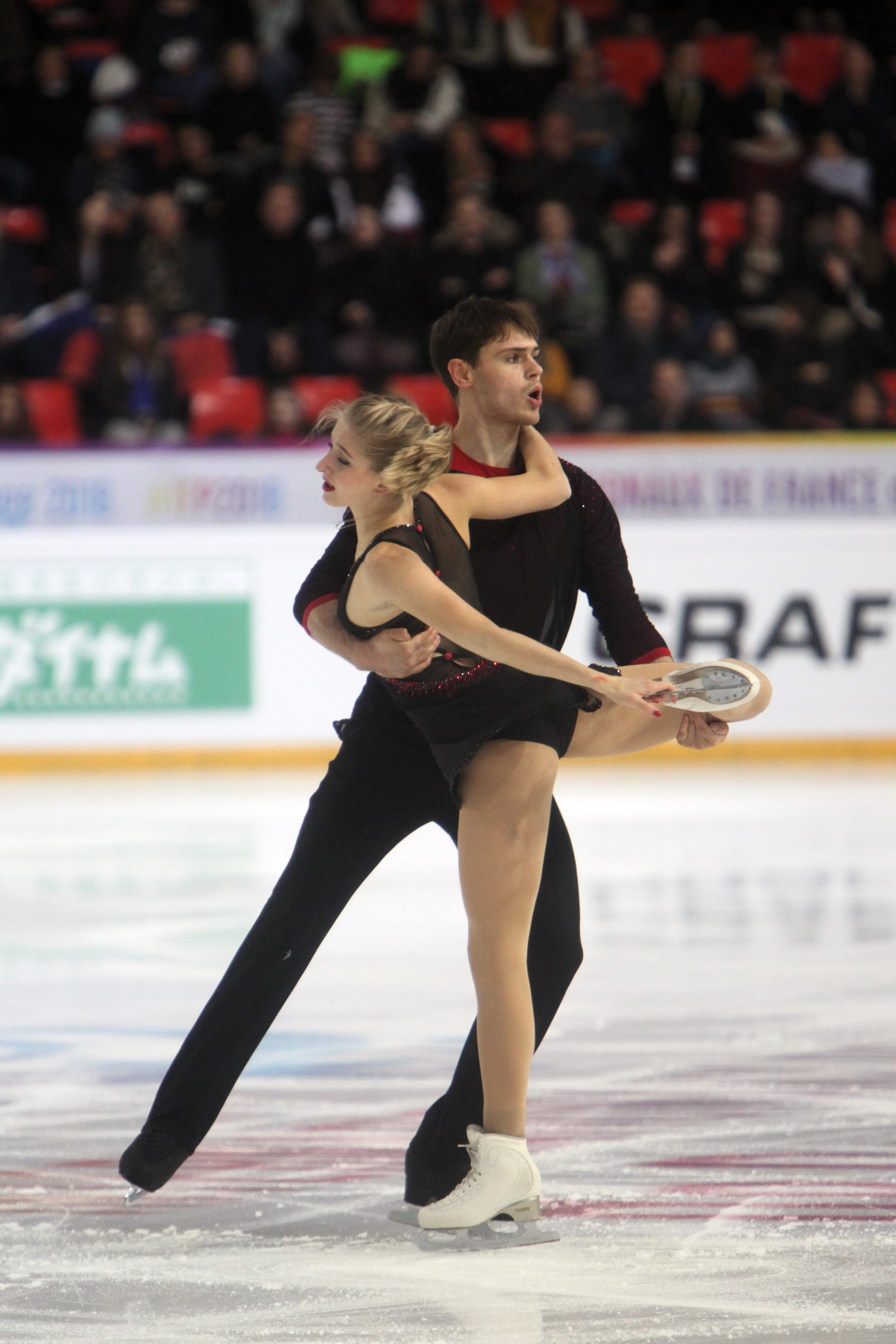 Minerva Fabienne Hase and Nolan Seegert during the Pairs Free Skating at the Internationaux de France de Patinage 2018.